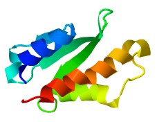 Structure of the anti-CRISPR protein AcrIIA4, obtained using PDB with the JSmol viewer.